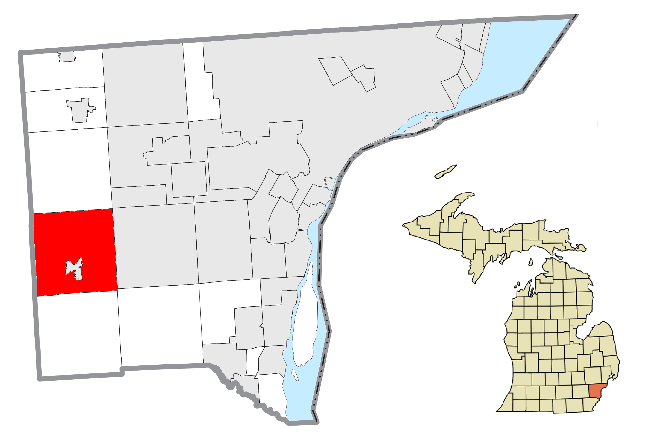 Van Buren Charter Township, MI